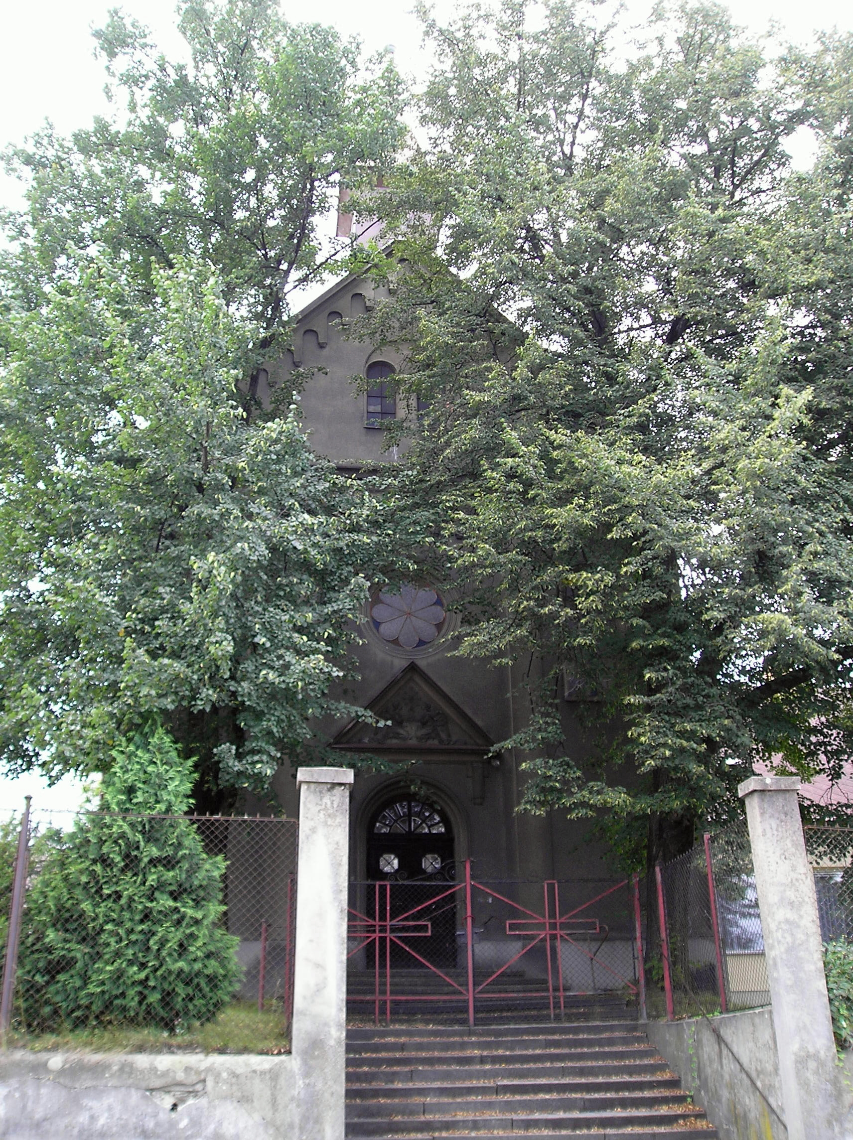 Front wall of Saints Cyril and Methodius church, Suché Vrbné, České Budějovice, Czech Republic